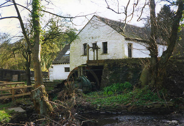 Pontllanfraith: Gelligroes Mill. The watermill dates from 1625. It has since been rebuilt and features an overshot waterwheel and a more recent turbine. Restored in 1993